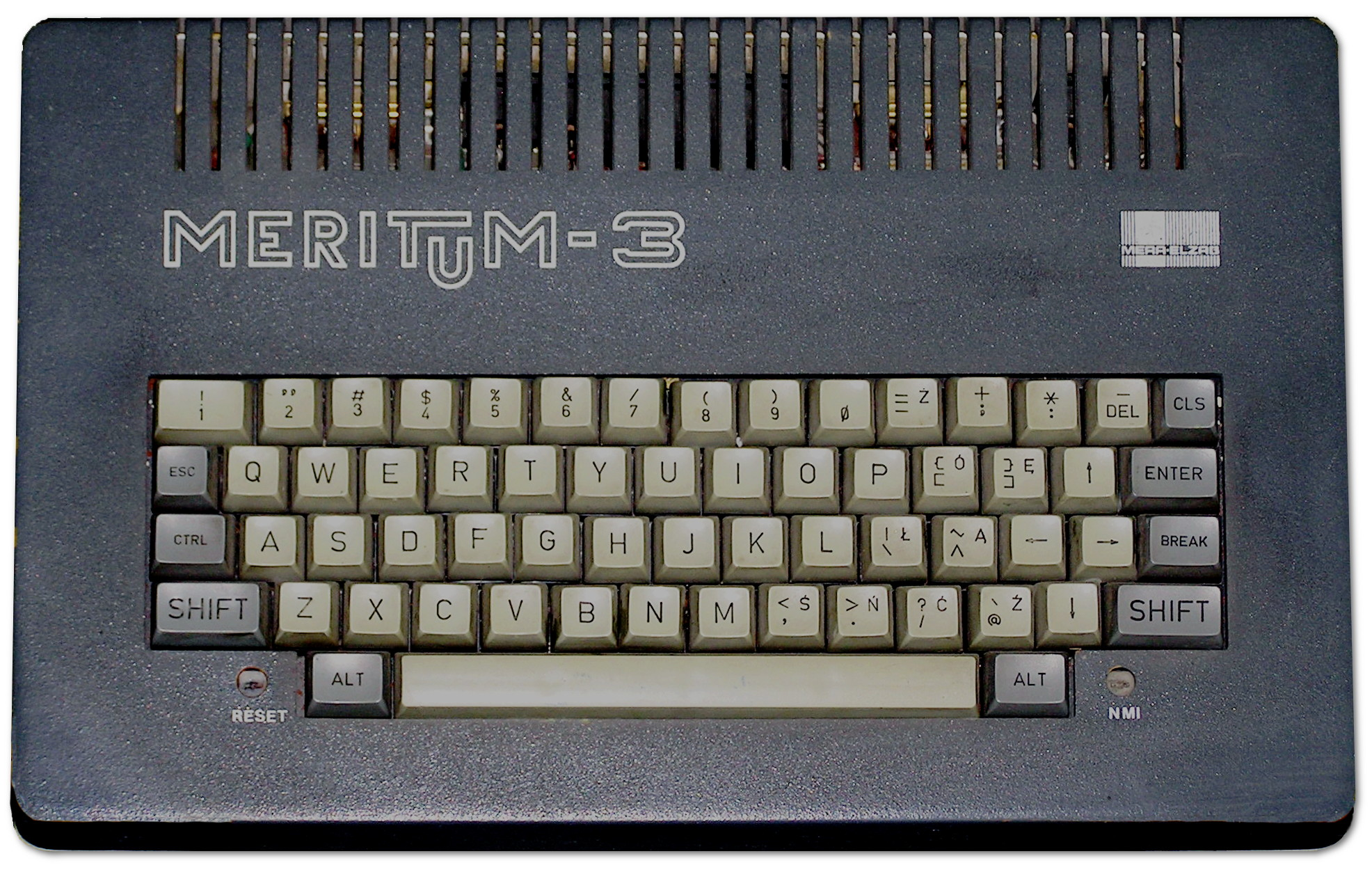 computer Meritum 3 (Meritum III)